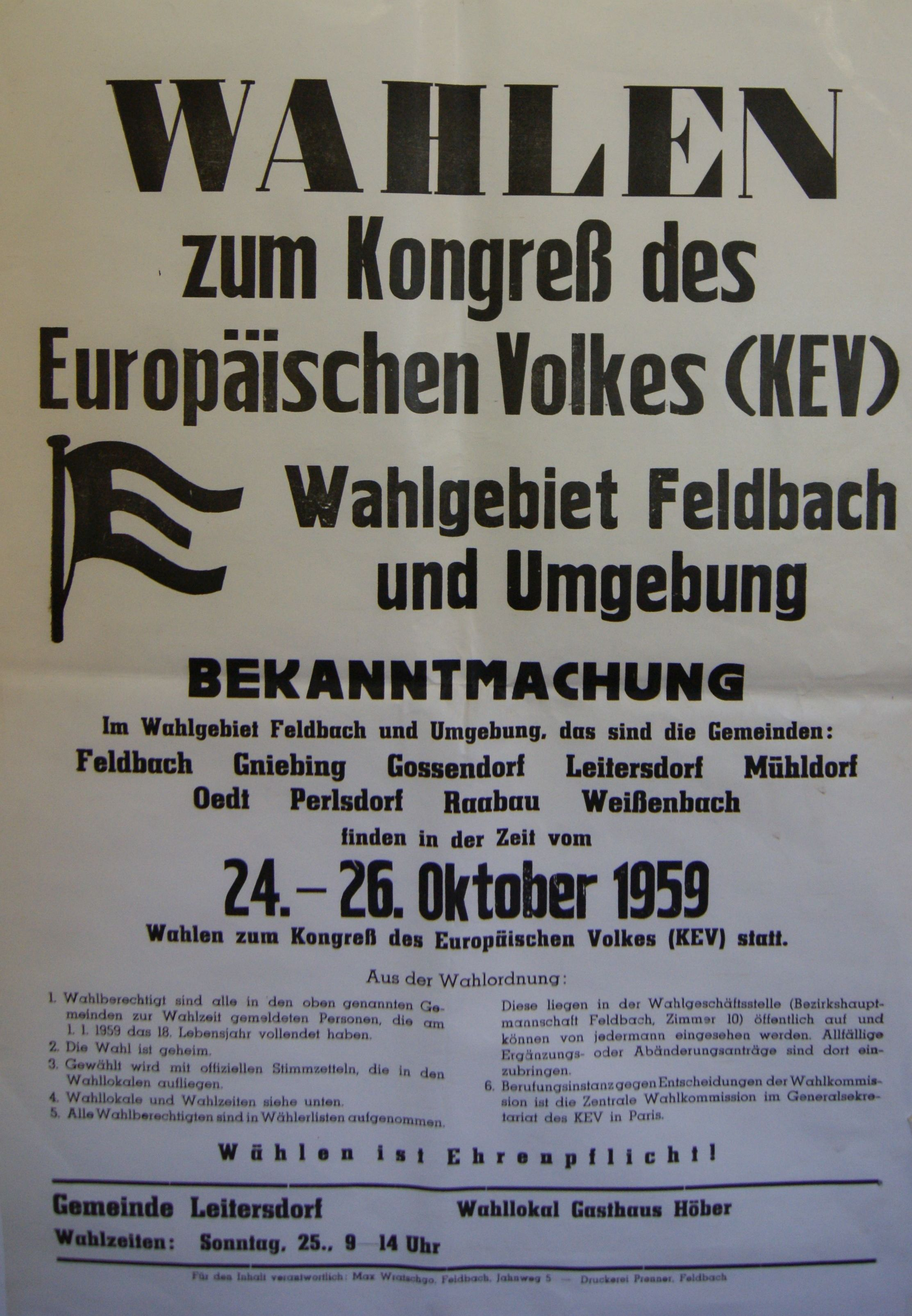 Poster on the Forchtenstein castle in Neumarkt, Styria about the 1957 elections to the Congress of the European People (KEV) from 24 to 26 October 1957.